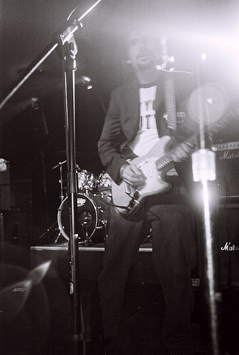 Guitarist Fernando Perdomo playing a 1972 Fender Mustang guitar.